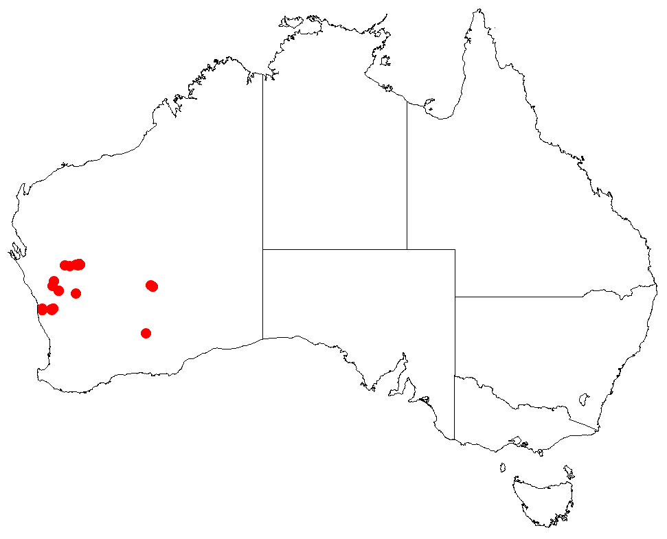 Lawrencia chrysoderma occurrence records downloaded from Australasian Virtual Herbarium, on 22 May 2018